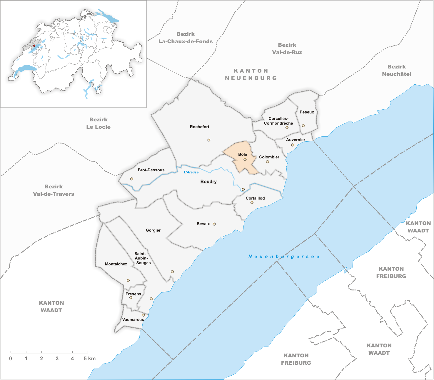 Municipality Bôle